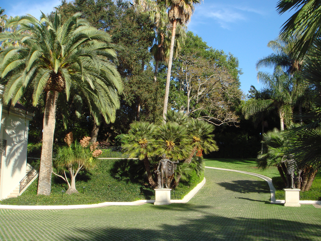 Image of Jennifer Aniston and Brad Pitt Former Home